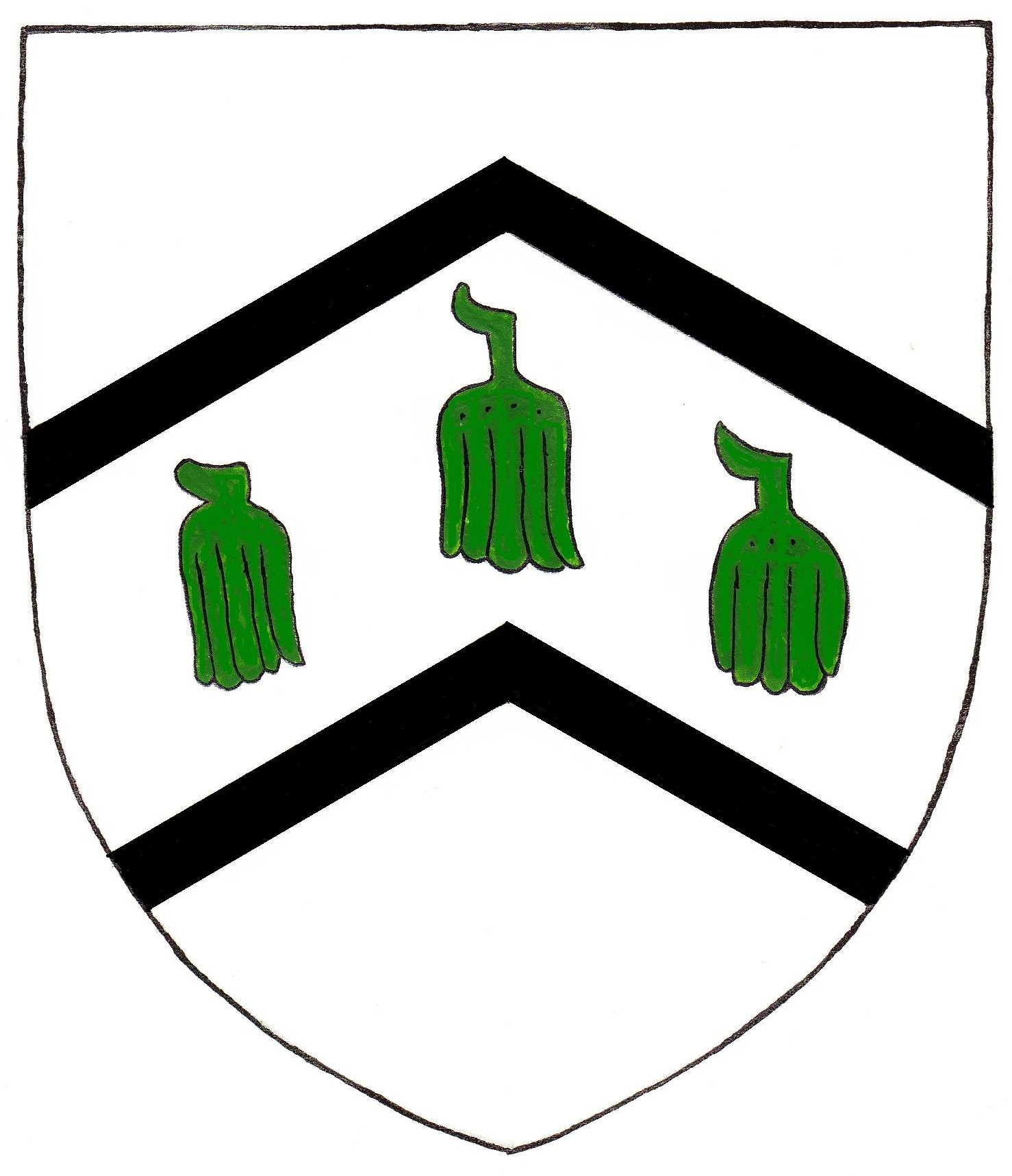 Armorials of Ayshford family of Ayshford Manor, Burlescombe Parish, Devon. Based on design shown on memorial in Ayshford Chapel to John Ayshford (d.1689). The charges are variously blazoned as "pineapples", "pines pendant" and "ashen keys". Pineapples unlikely, ashen keys seems optimal description as canting reference: Argent, on a chevron couple closed sable 3 ashen keys vert, or Argent, between 2 chevrons sable 3 ashen keys or Argent, on a chevron voided sable 3 ashen keys vert. Depicted also in Burlescombe parish church on 2 Ayshford mural monuments, tinctures faded/tarnished.